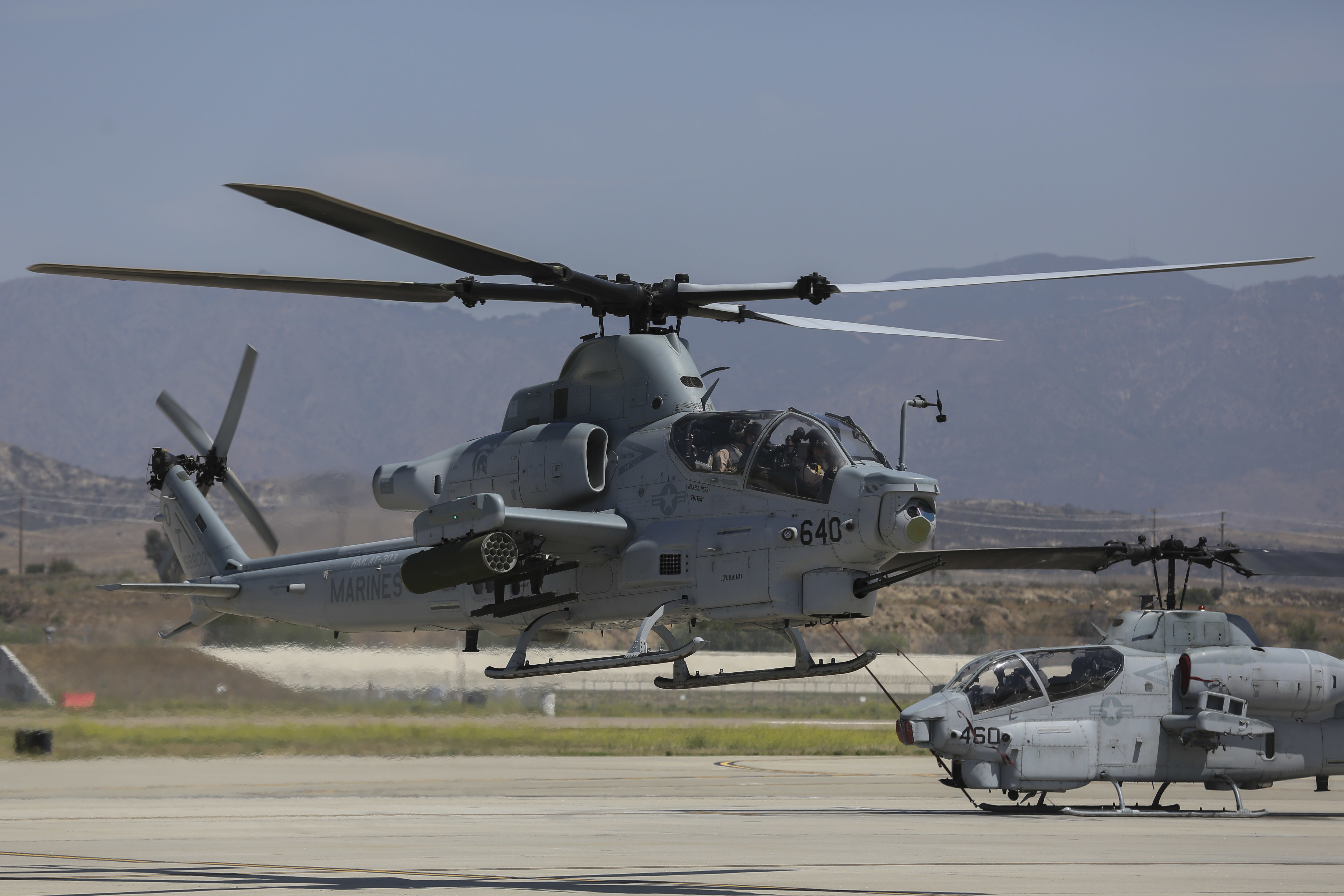 An AH-1Z Viper Cobra attack helicopter with Major General Daniel O’Donohue, 1st Marine Division commanding general aboard, taxis down the runway after completing an orientation flight at Marine Corps Air Station Camp Pendleton, Calif., June 2, 2016. The flight toured the training areas aboard Camp Pendleton to demonstrate the capabilities the airframe brings to the battlefield. (U.S. Marine Corps photo by Lance Cpl. Timothy Valero / Released) Unit: 1st Marine Division